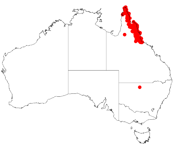 Acacia calyculata Occurrence data from Australasia Virtual Herbarium downloaded from on 8 December 2018